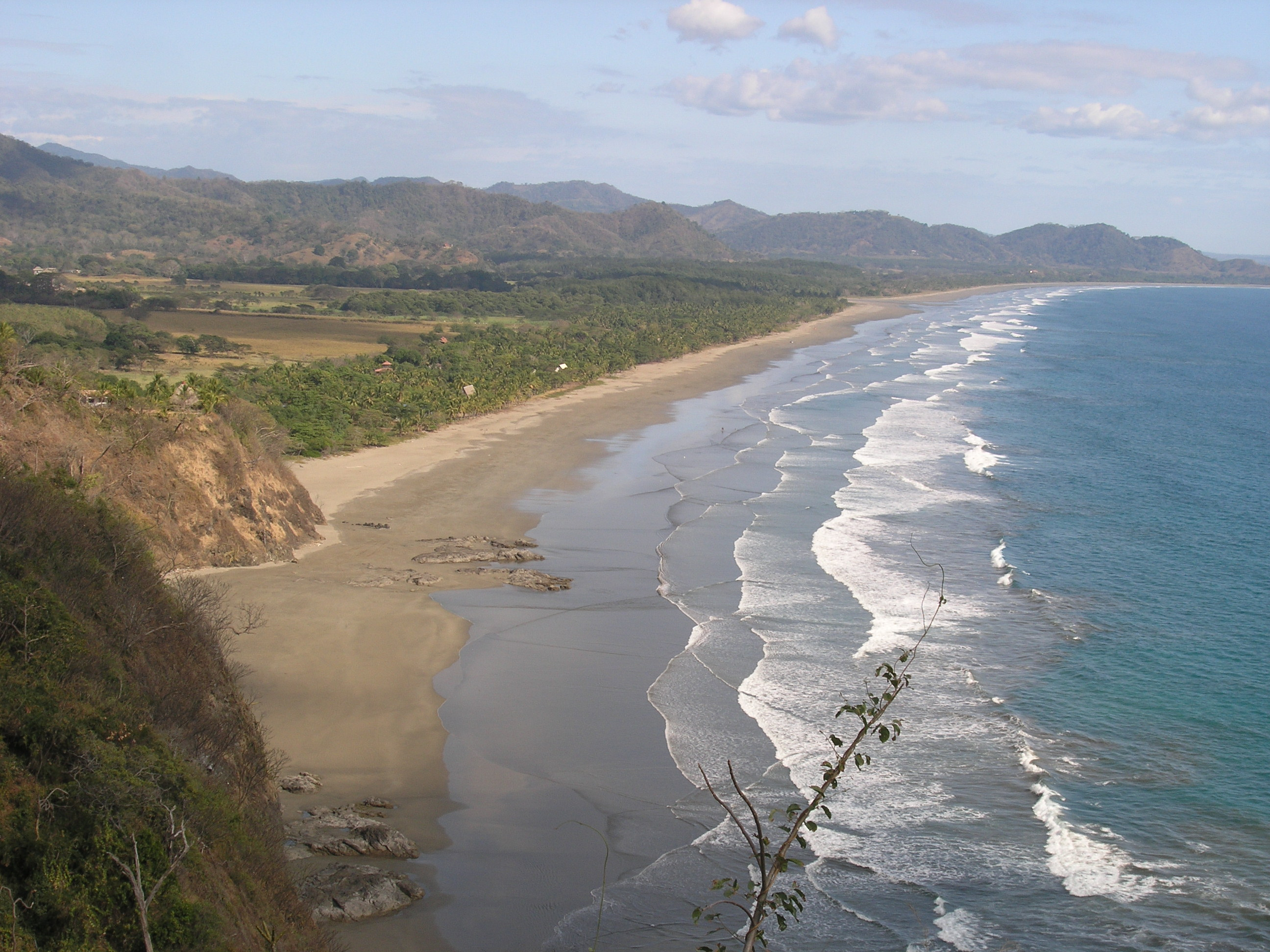 Playa San Miguel view from B.Kobelts property